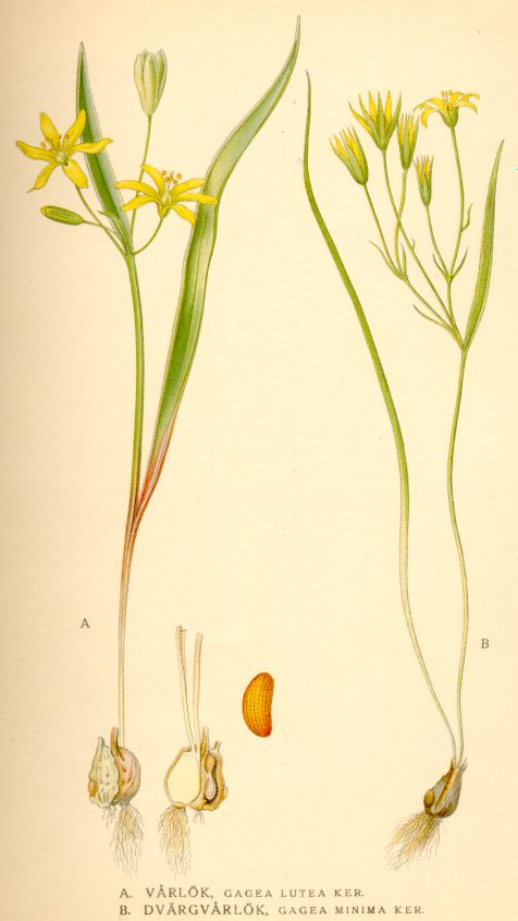 Gagea lutea and Gagea minima